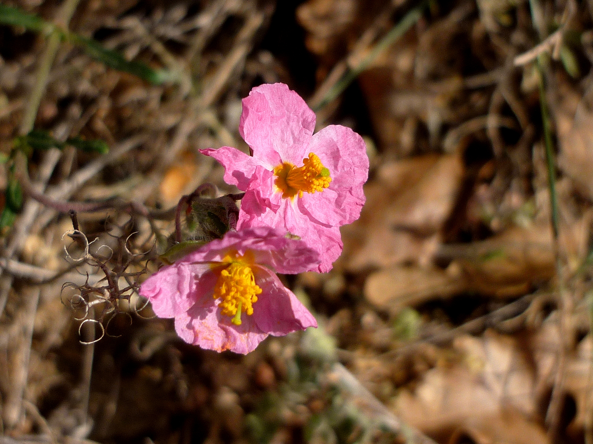 Helianthemum apenninum. In Torà (Segarra-Catalunya). To 580 m. altitude